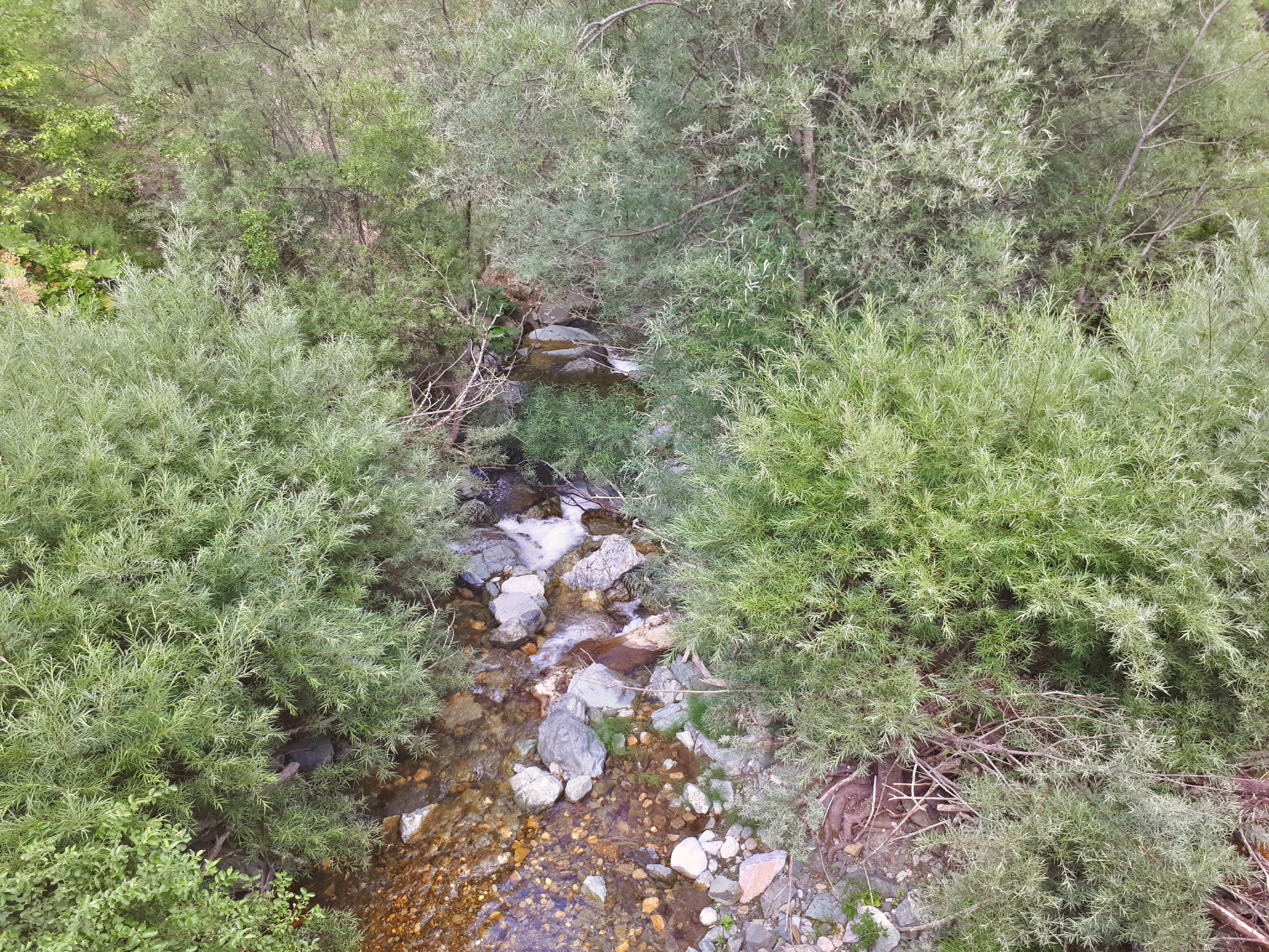 The river Štirovica near the eponymous historical village